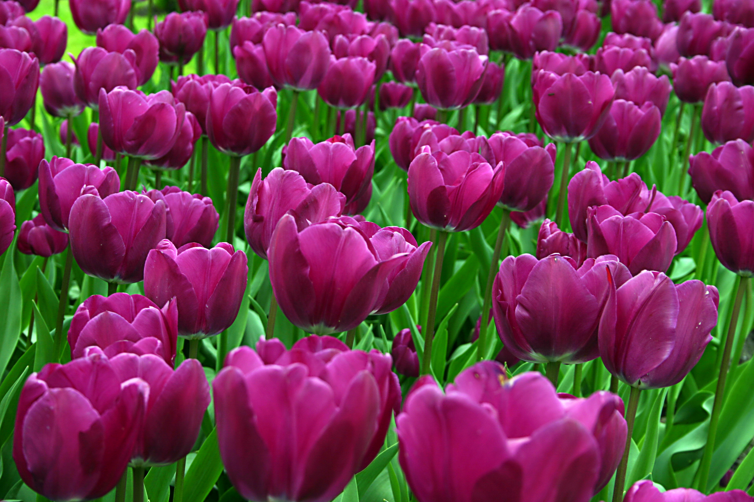 Field of Tulips